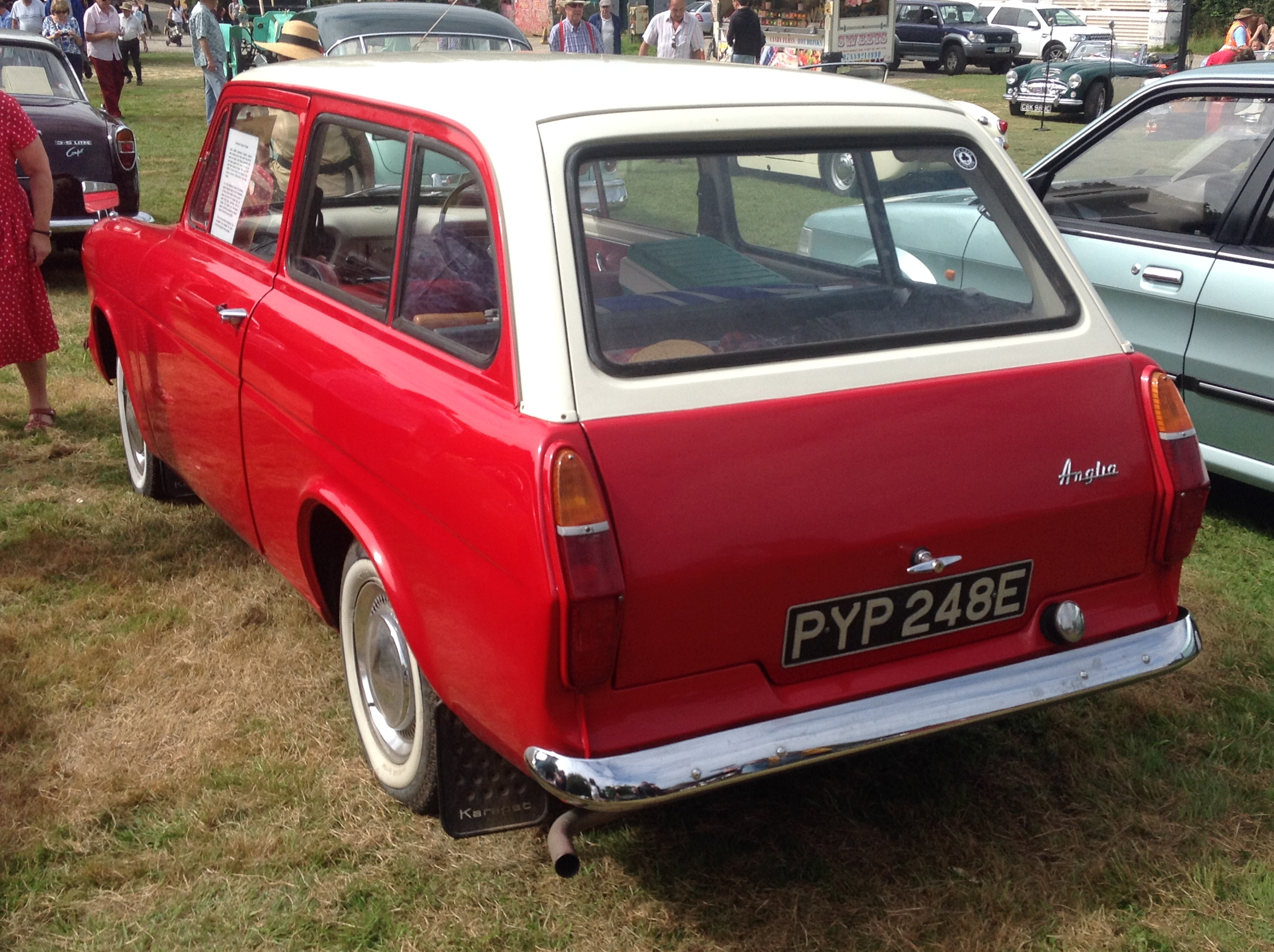 Bluebell Railway, Horsted Keynes Station, West Sussex. Vintage Transport Weekend.